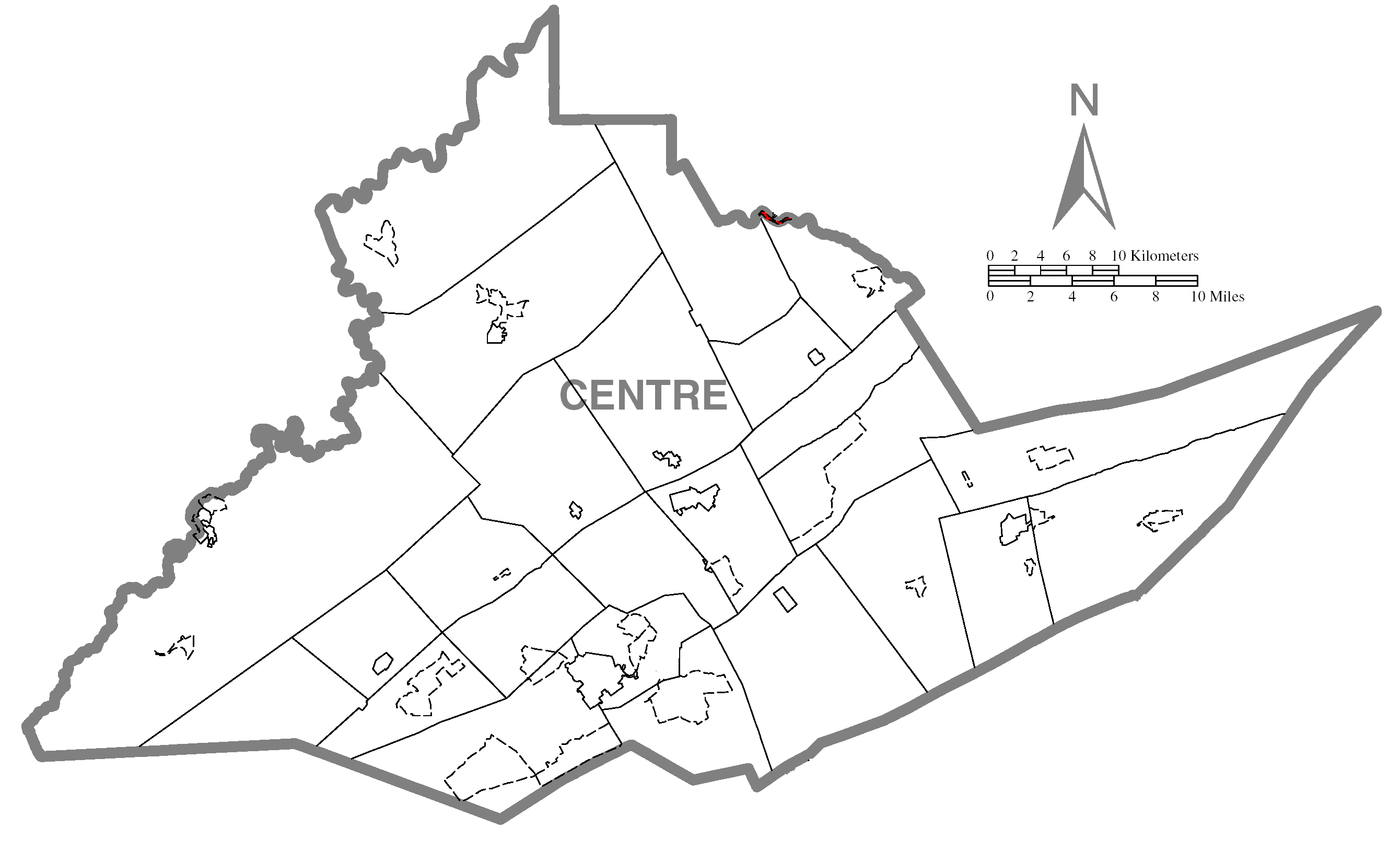 A map of Centre County showing Monument, Pennsylvania (alternate) highlighted on the map.